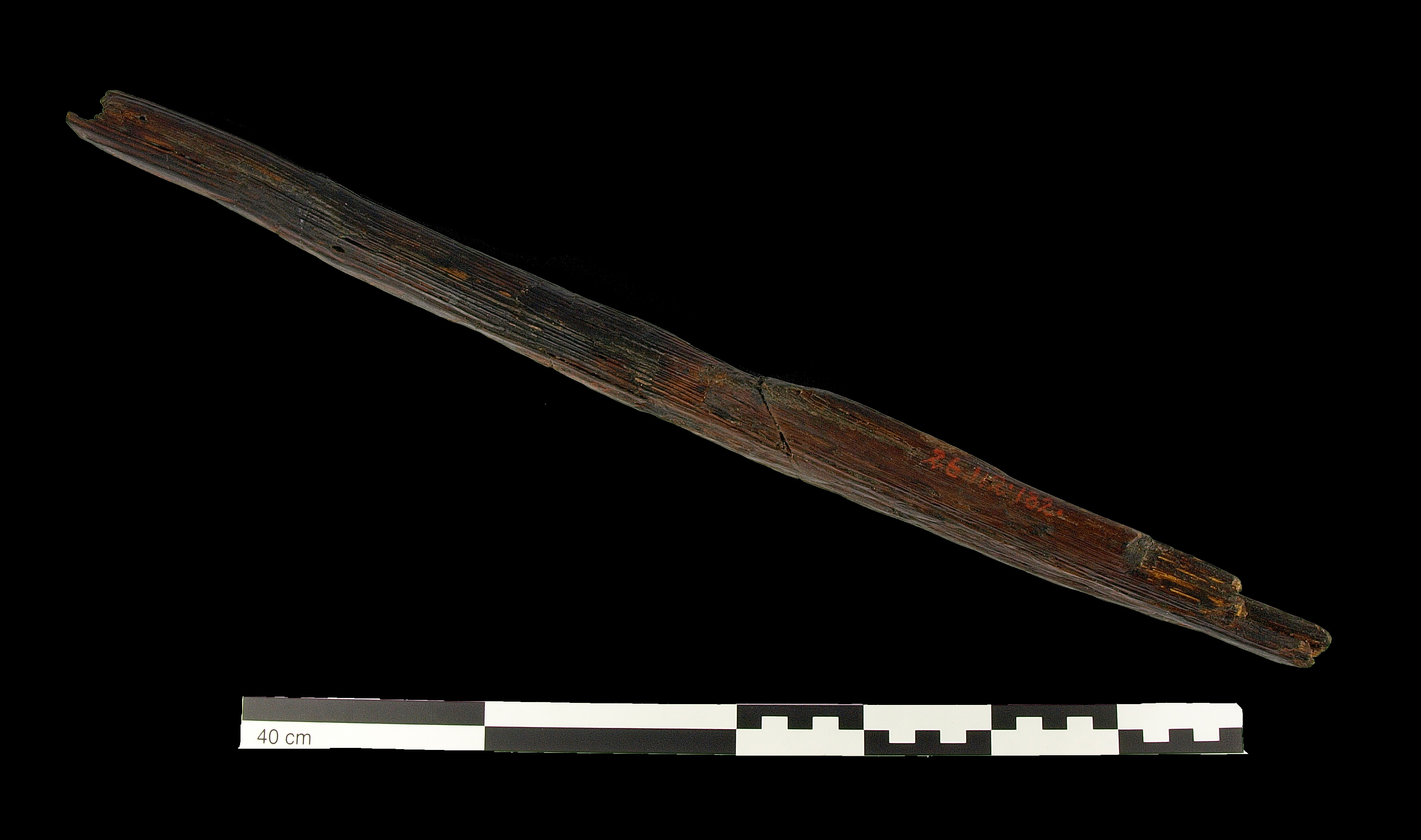 Lateral view of Duvensee paddle with scale. One of the world's oldest surviving wooden paddles.